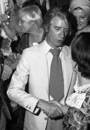 Title: Bonn, Bundeskanzlerfest Extra information: Links Helmut Schmidt, rechts Showmaster Rudi Carrell mit Loki Schmidt People in the image: Schmidt, Helmut: Bundeskanzler, Verteidigungsminister, SPD, Bundesrepublik Deutschland Additional information: (auf diesem Ausschnitt nur Rudi Carell mit Loki Schmidt) Factual corrections and alternative descriptions are encouraged separately from the original description. Additionally errors can be reported at this page to inform the Bundesarchiv. Original historic description: 1.07.1977 Kanzlerfest